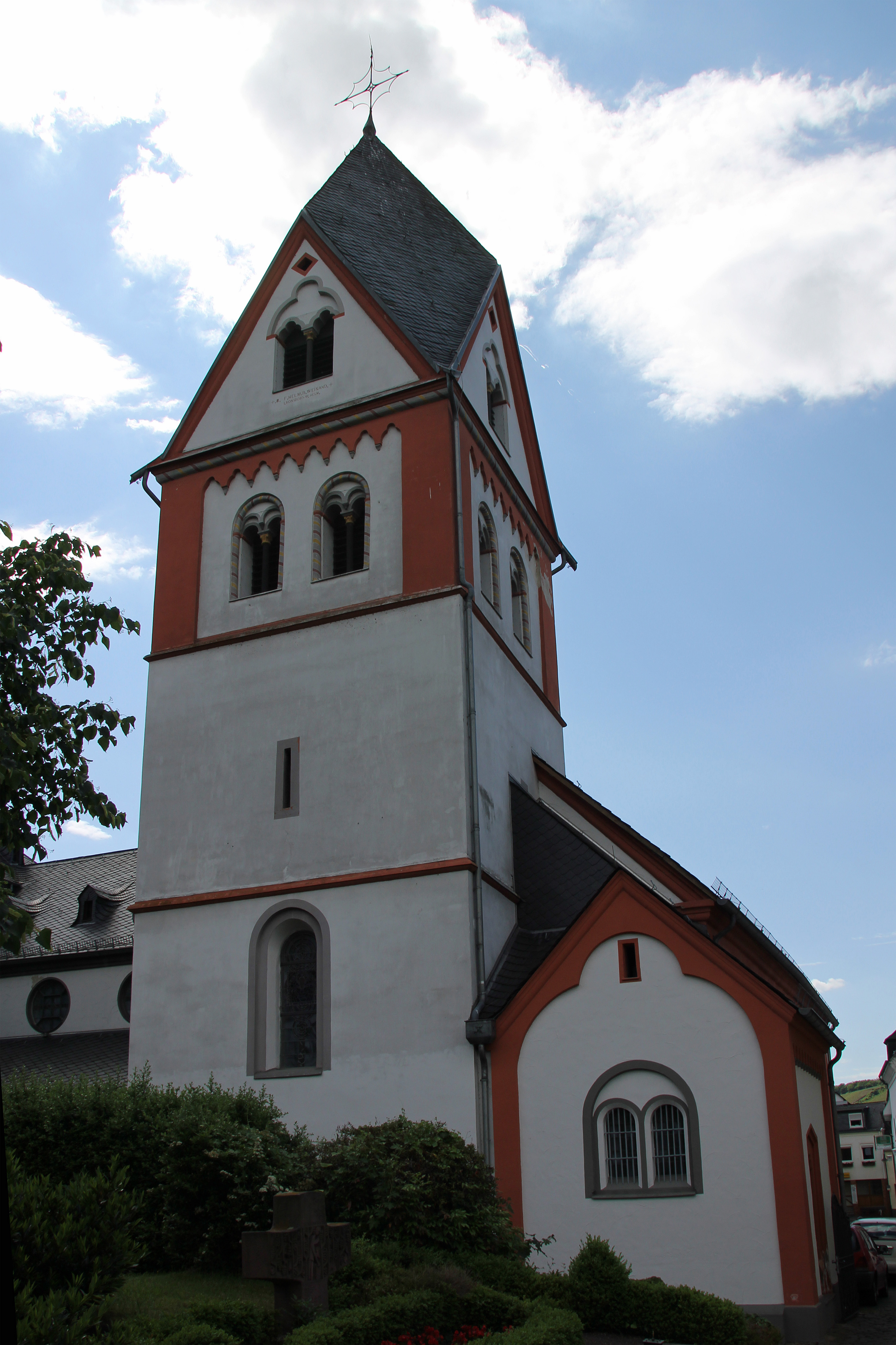 St. Martinus church in Koblenz